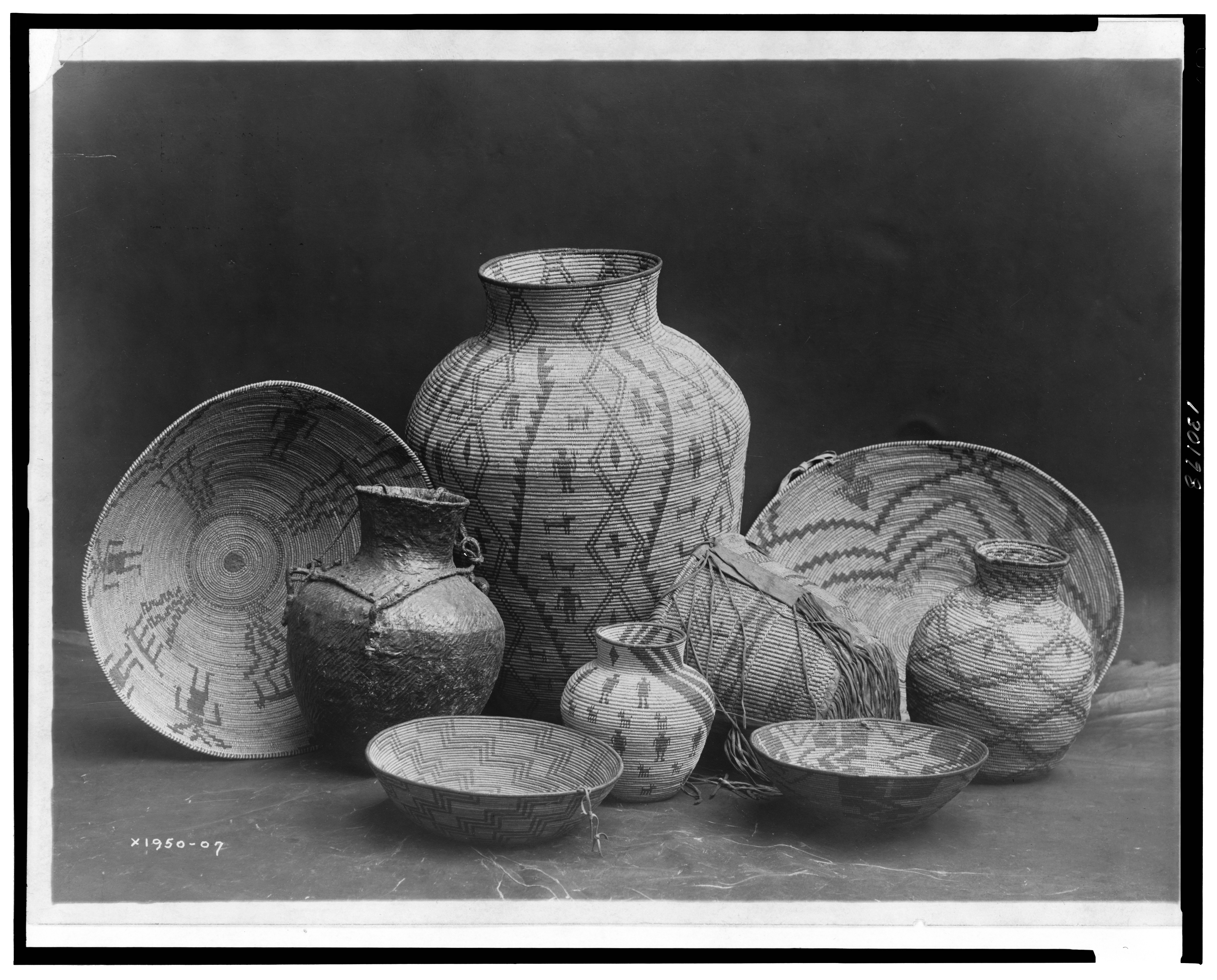 "Apache still life" — of Apache baskets. From The North American Indian, by Edward S. Curtis.